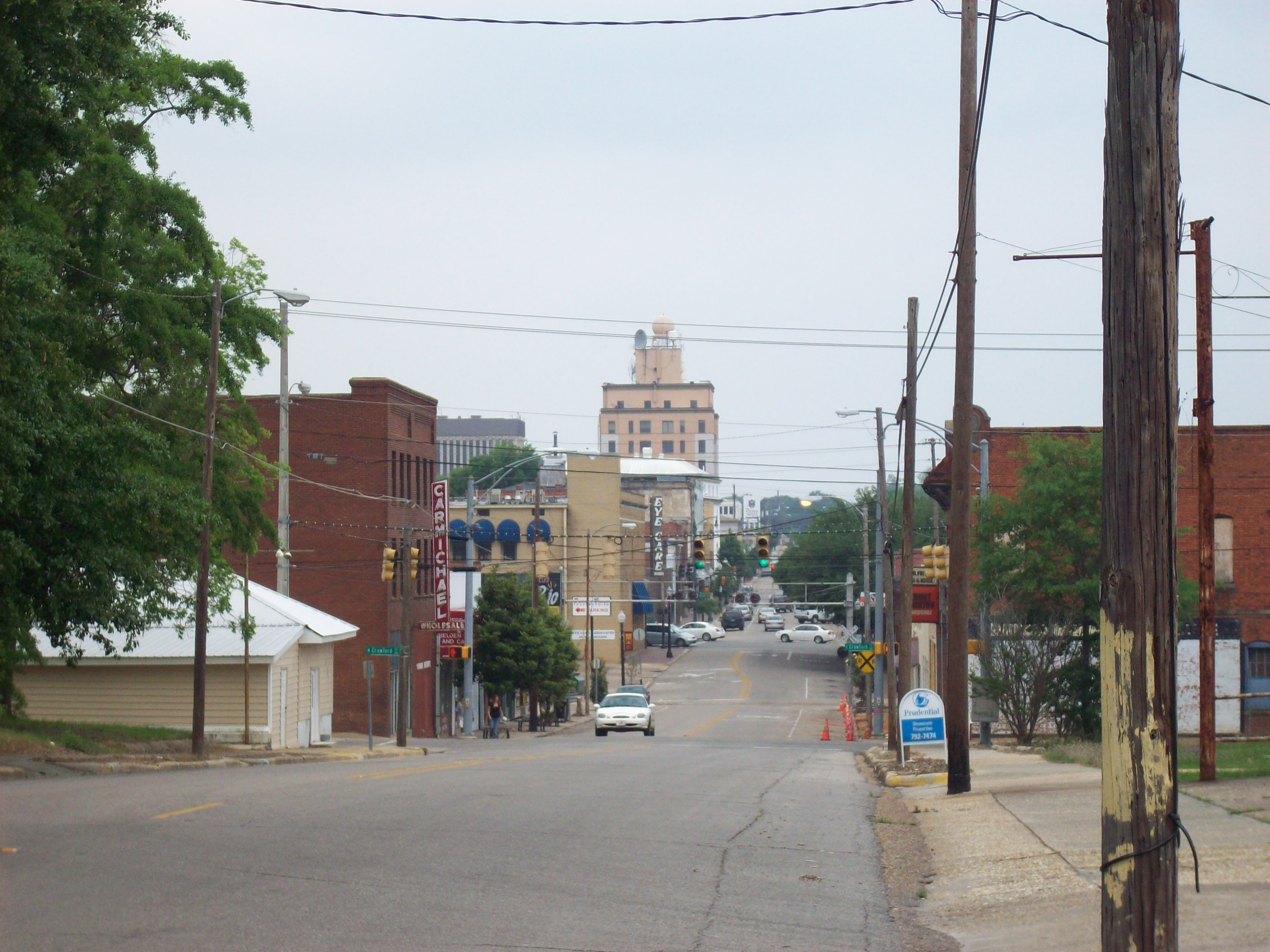 Downtown Dothan, Alabama, looking up Foster Street